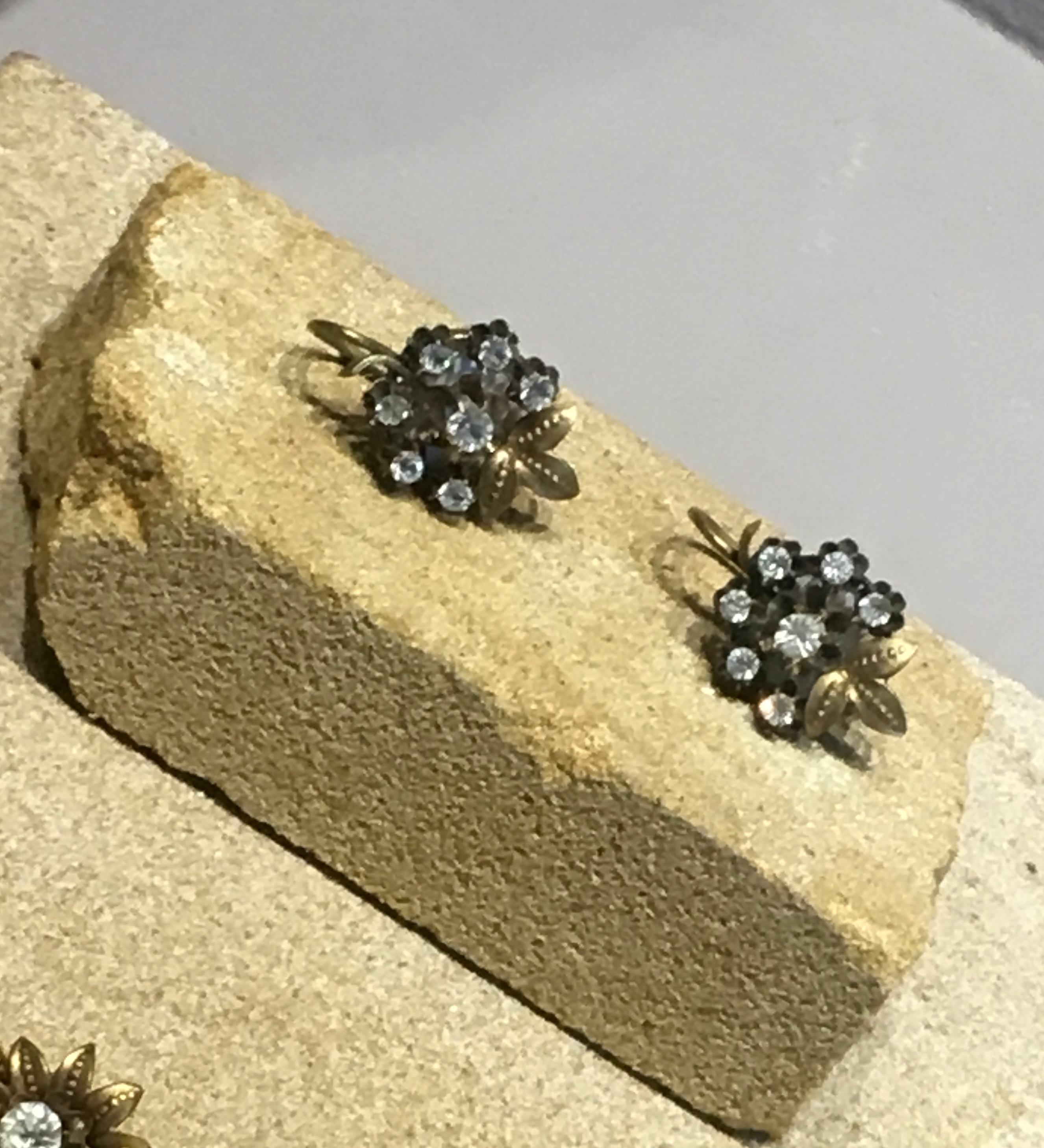 Earrings, jewelry for women. They are made of various materials and precious metals.